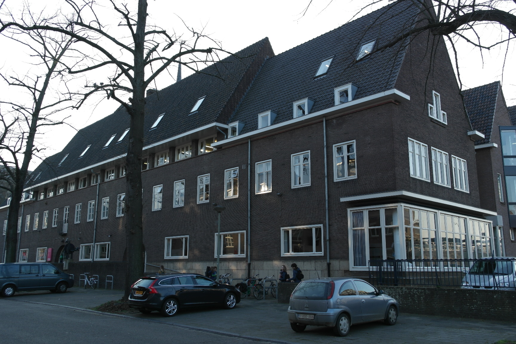 Maastricht-Wyck, Netherlands. View of the former Monastery of the Sisters Franciscans of Heythuysen, now the Kumulus center for amateur performing arts (music & dance).